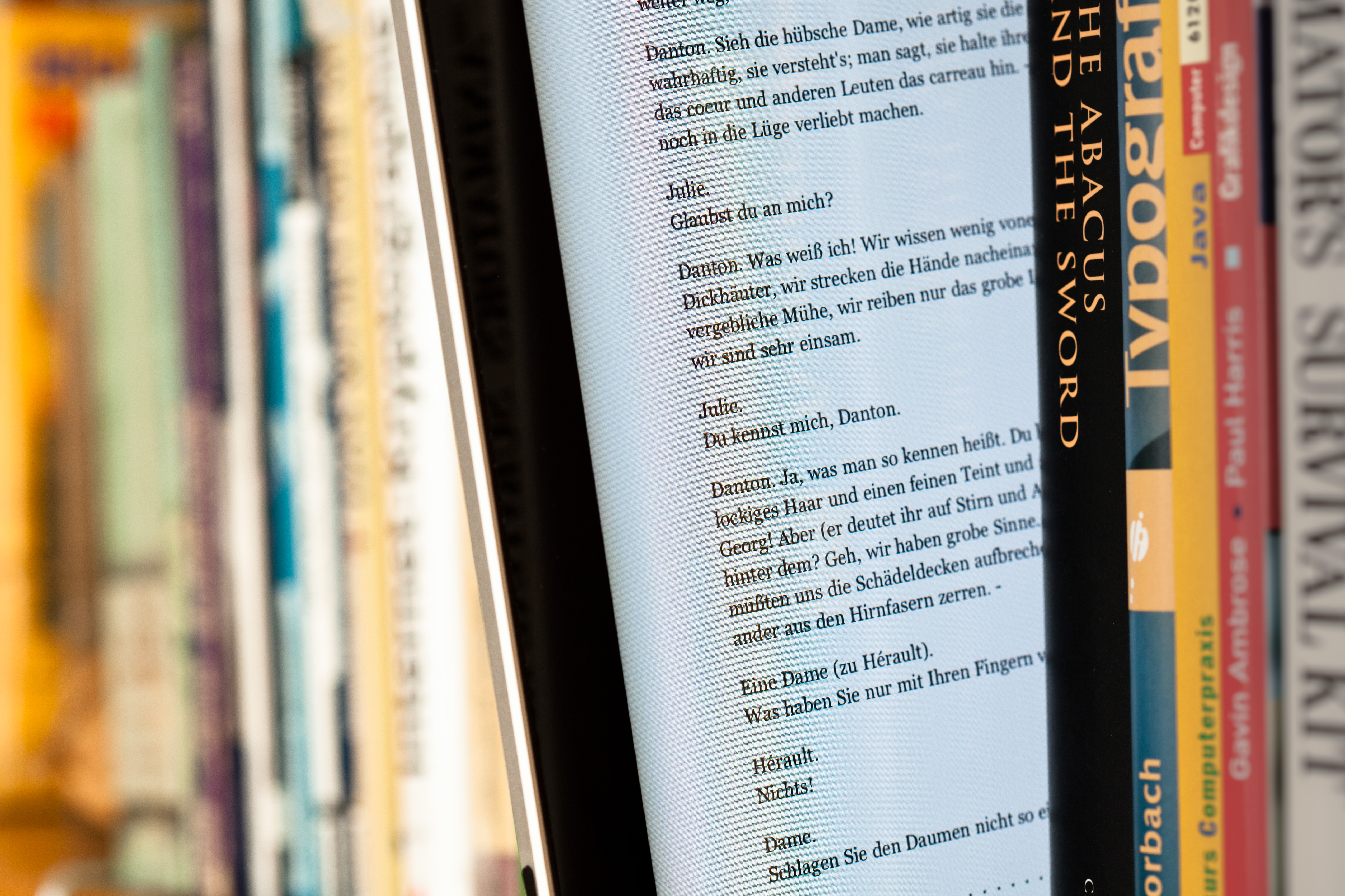 An iPad with text sits between ordinary books in a bookshelf. The text is a page from Georg Büchner's "Dantons Tod". The app in charge is "iBooks".